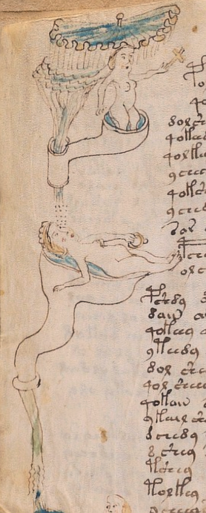 f.79v